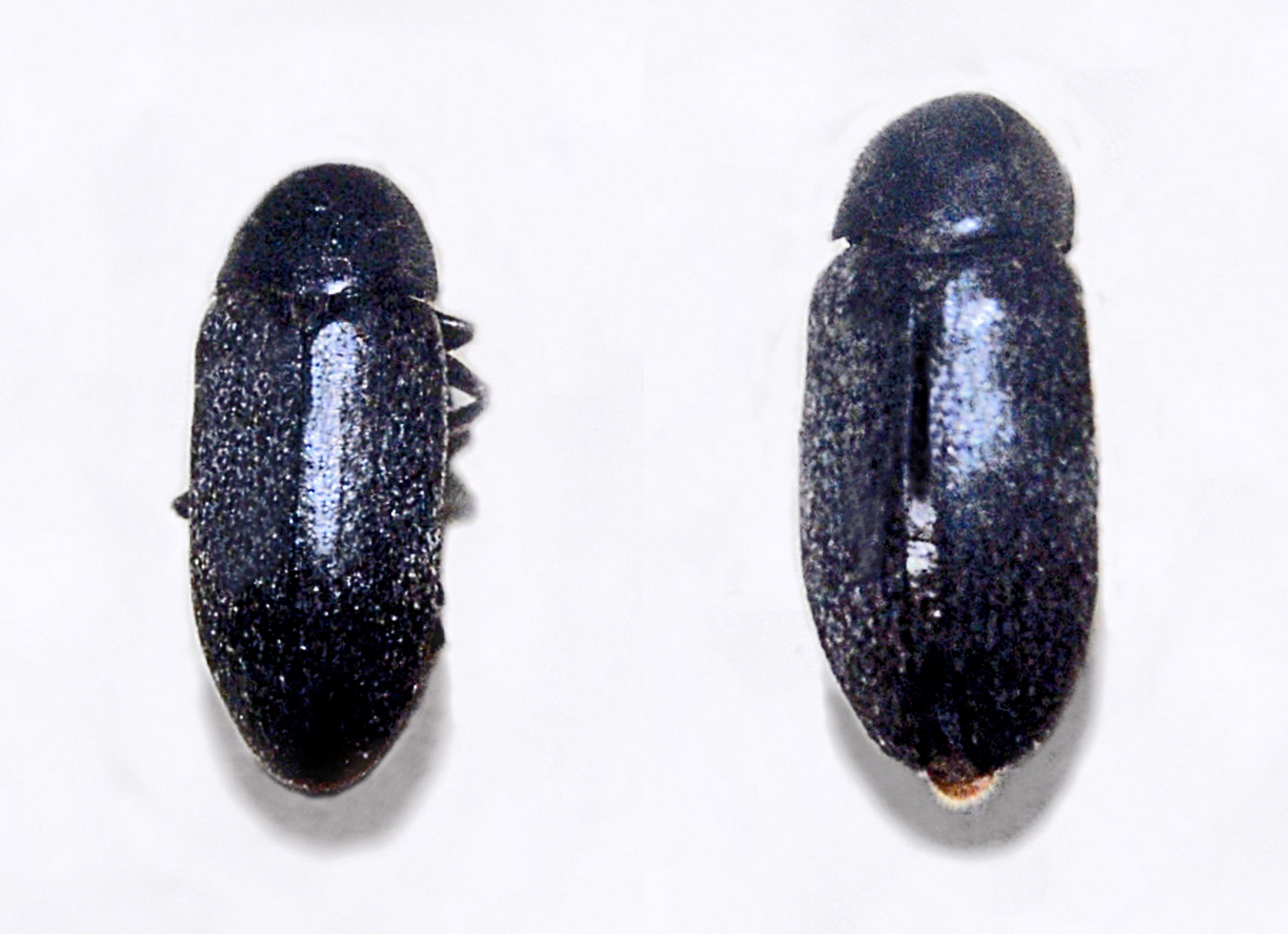 Dermestes maculatus. Museum specimen